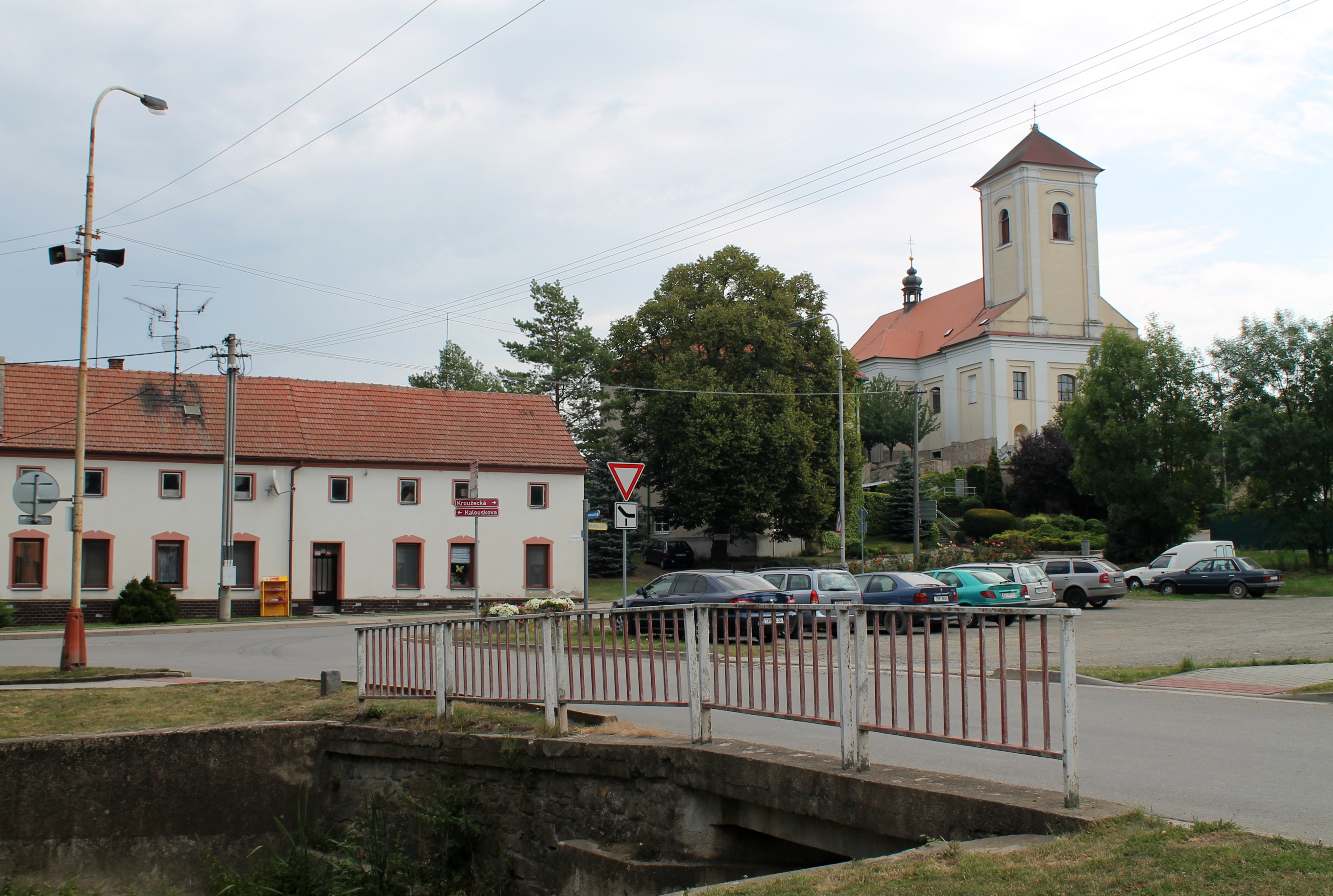 Rousínovec, Rousínov, Vyškov District, Czech Republic